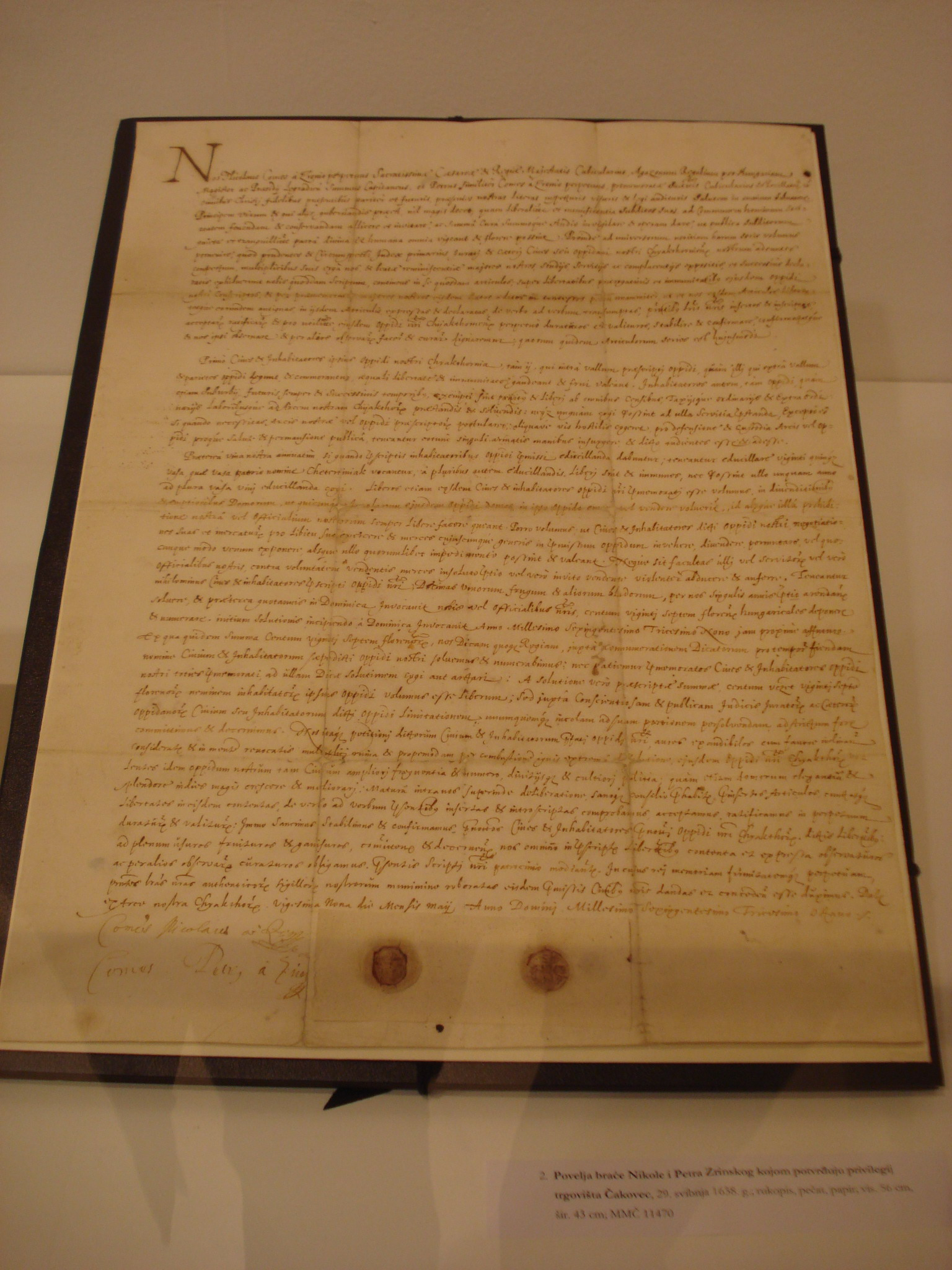 Čakovec Charter of confirmed privileges of Counts Nikola and Petar Zrinski from 29th May 1638, Croatia